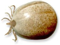 Ixodes holocyclus - Full engorgement